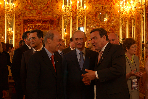 Pushkin (Russia), Catherine Palace, President Putin with Greek Prime Minister Konstantinos Simitis and German Chancellor Gerhard Schroeder (right) in the Amber Room. In the background, left - European Commission President Romano Prodi.